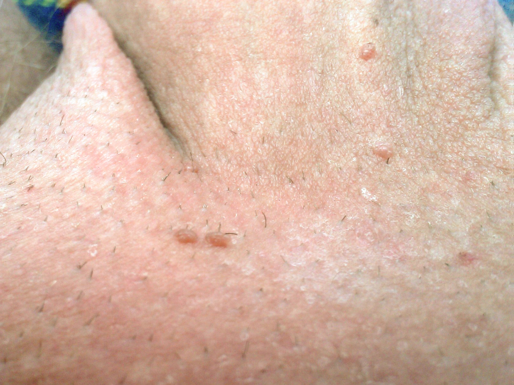 Shaved base of a penis, with genital warts